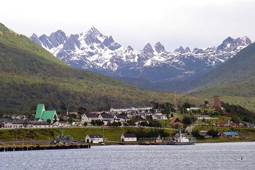 This is a very cold, wet and dank location on the planet. It is also one of the most picturesque locations on the planet. The local population is very outgoing and kind. I took this photo